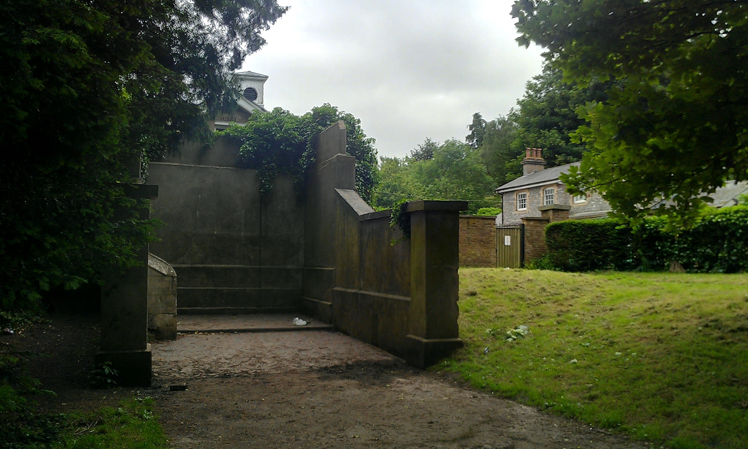 The Fives Court at High Elms Country Park, London Borough of Bromley. It was established in the 1850s when the estate was owned by the Lubbock family.